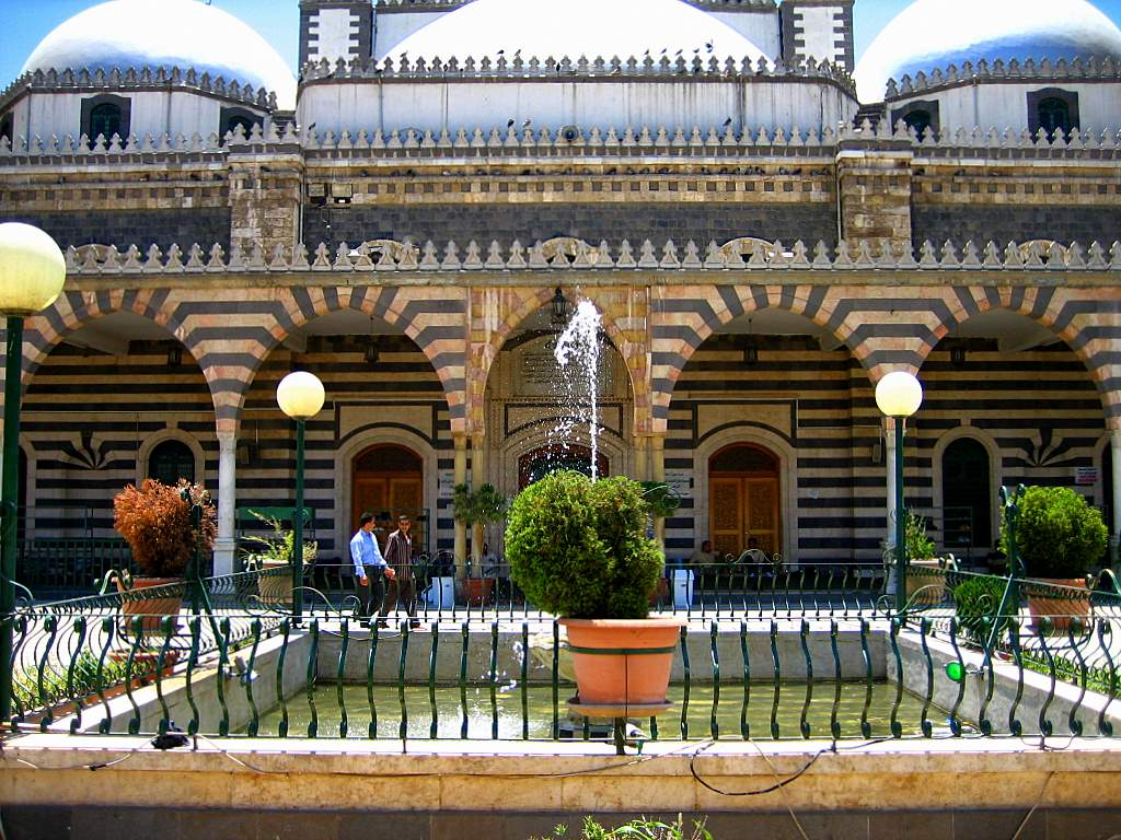 Courtyard of Khalid ibn al-Walid Mosque - Hims, Syria.